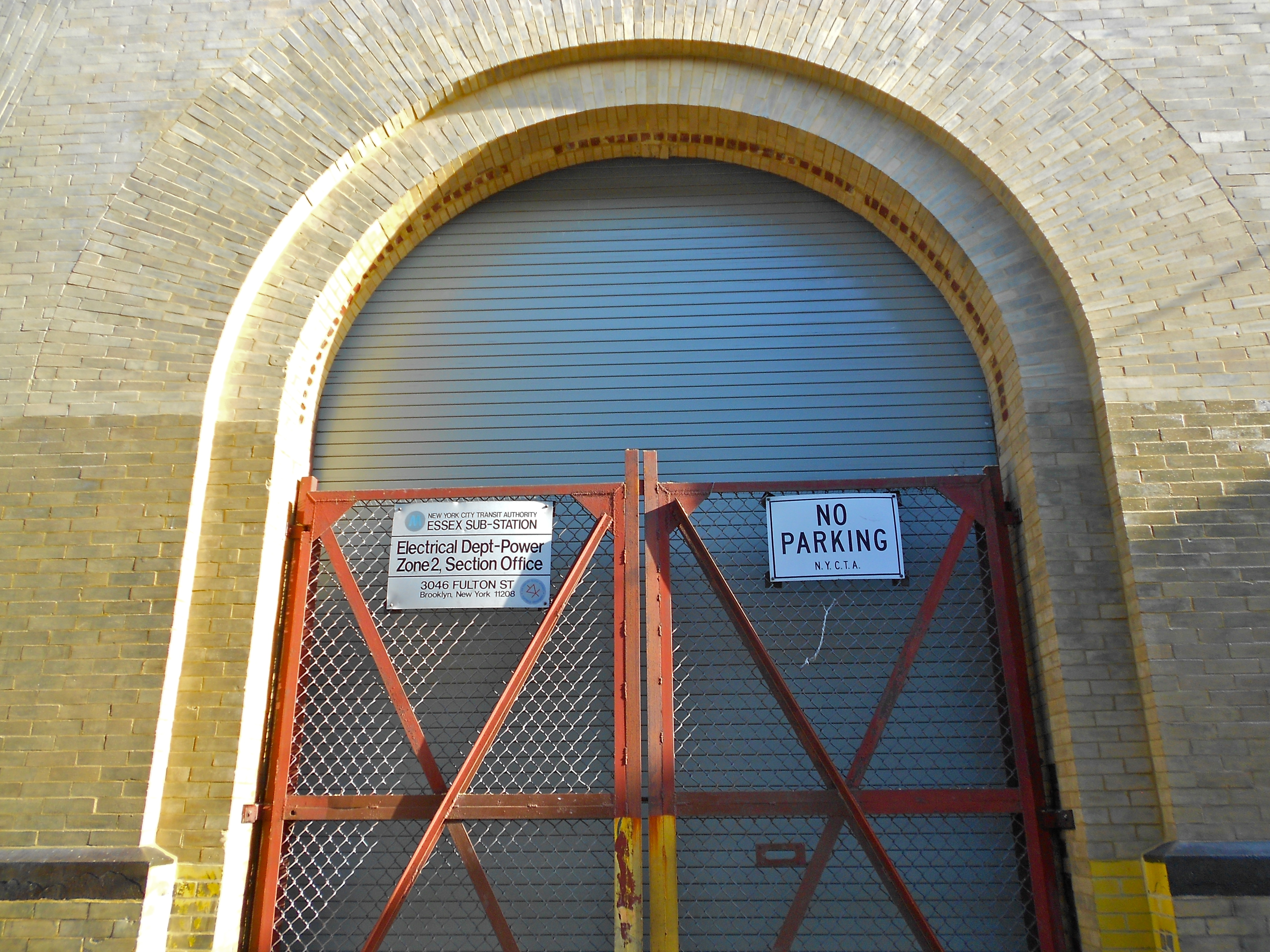 Substation #401 listed by the NRHP on July 6, 2005. At 3046 Fulton St. between Essex St. and Shepherd Ave. in East New York (aka Brooklyn) part of the New York City Subway System MPS.Overshadowed by the elevated train tracks - that's where the electricity goes.